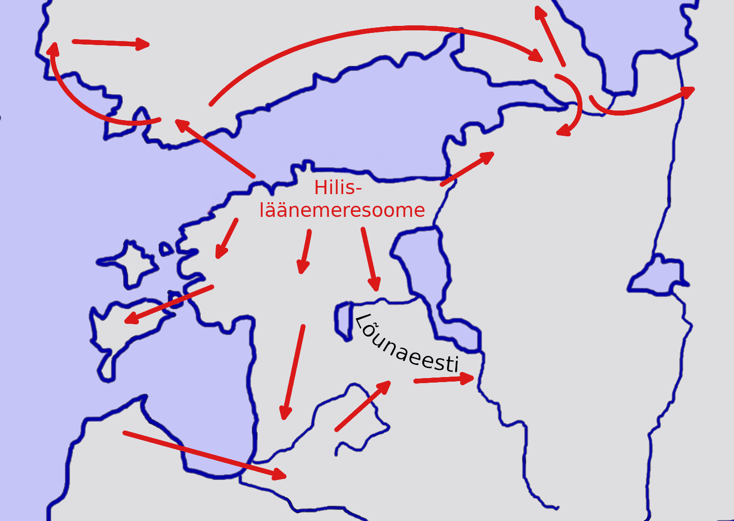 Hilise läänemeresoome algkeele levimine Põhja-Eesti algkodust Valter Langi järgi ("Läänemeresoome tulemised", 2018)